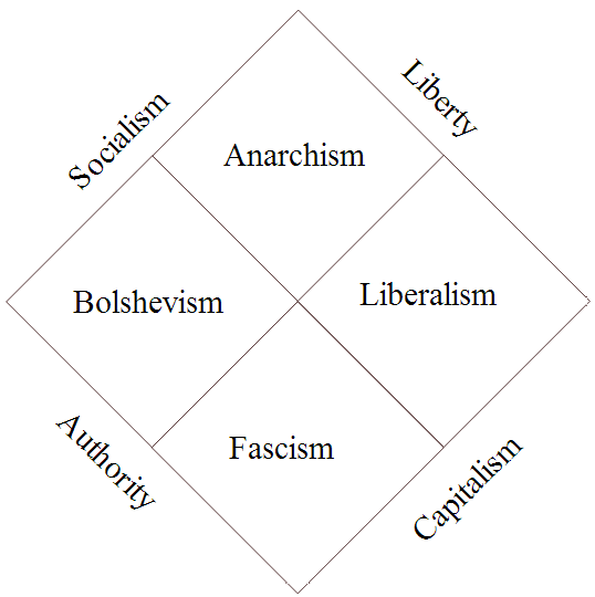 Modified original. Marx was not Authoritarian. Authoritarian Socialism is Bolshevism.